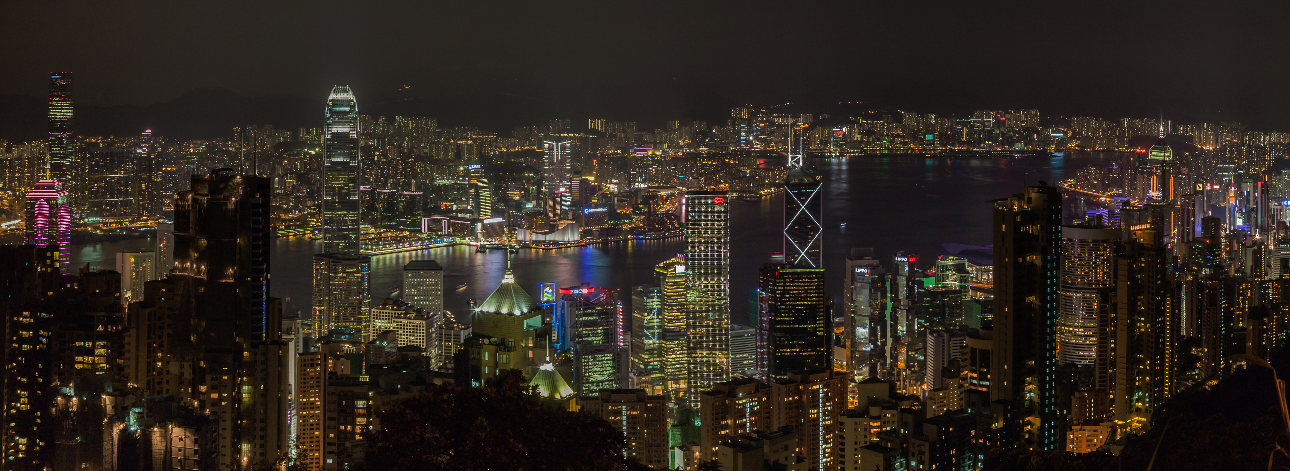 Panoramic view of Victoria Harbour from Victoria Peak, Hong Kong